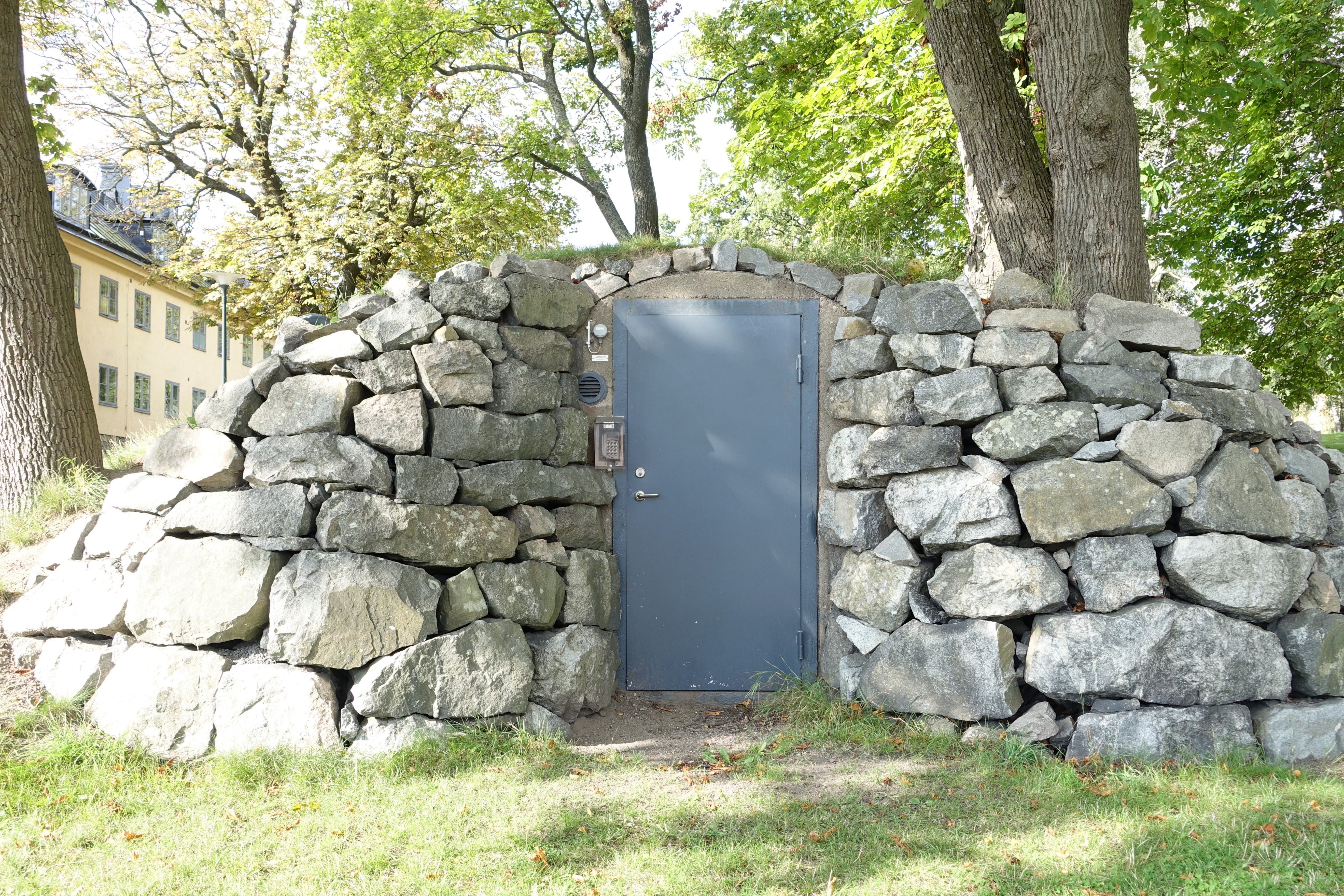 Bunker in Svensksundsparken - Stockholm, Sweden.